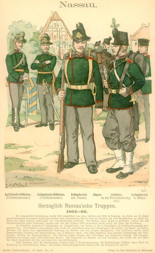 Nassau. Herzoglich Nassau'sche Truppen. Artillerie. Infanterie. 1862-1866